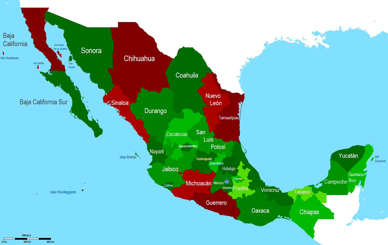 Mexican States with conflicts